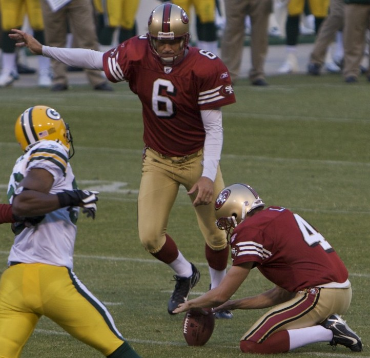 San Francisco 49ers placekicker Joe Nedney in action in a preseason game against the Green Bay Packers on August 16, 2008.